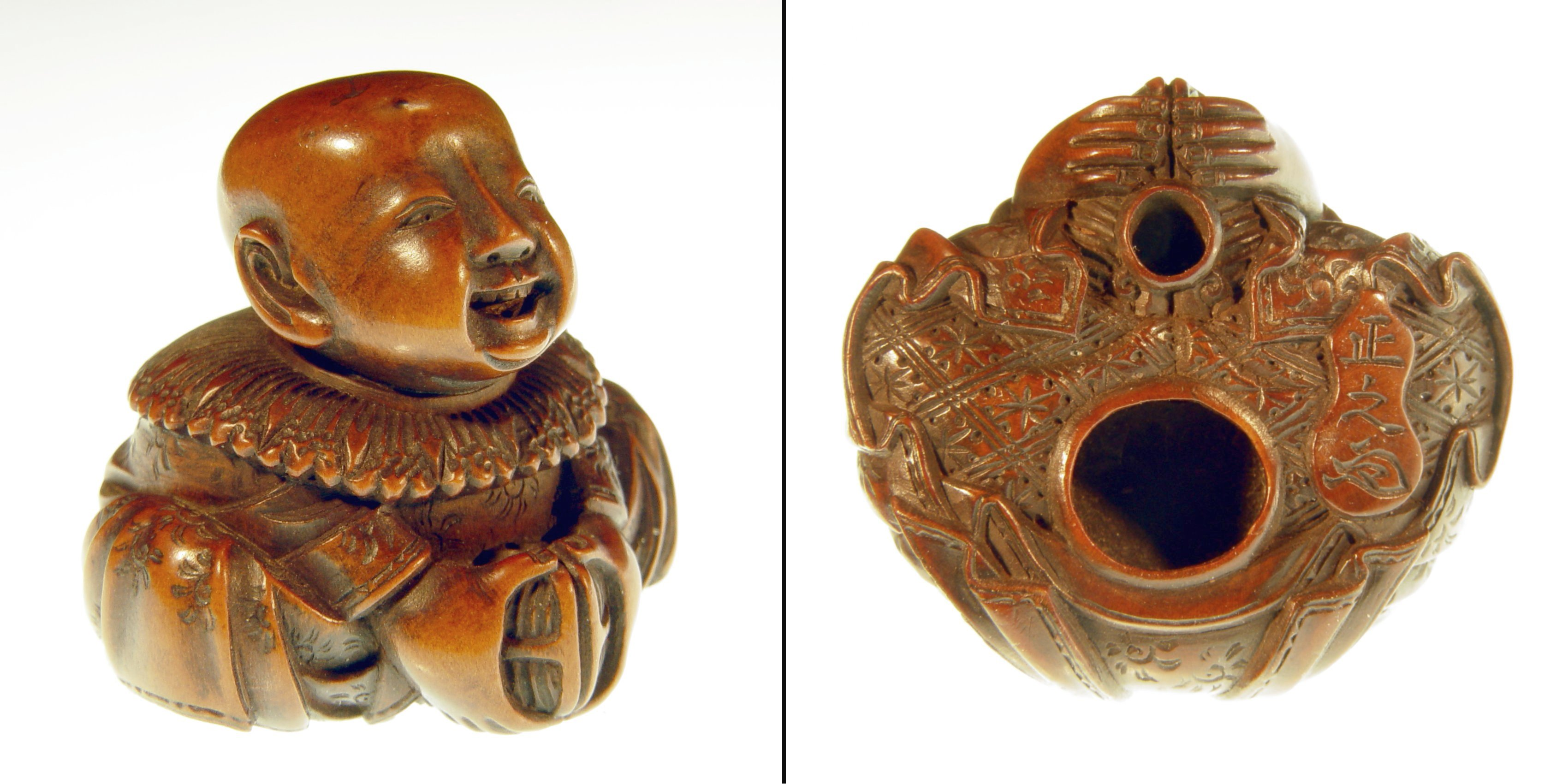 This 19th century katabori netsuke is a model of a smiling karako. Made of stained boxwood. it stands 1.2" (31mm) high.